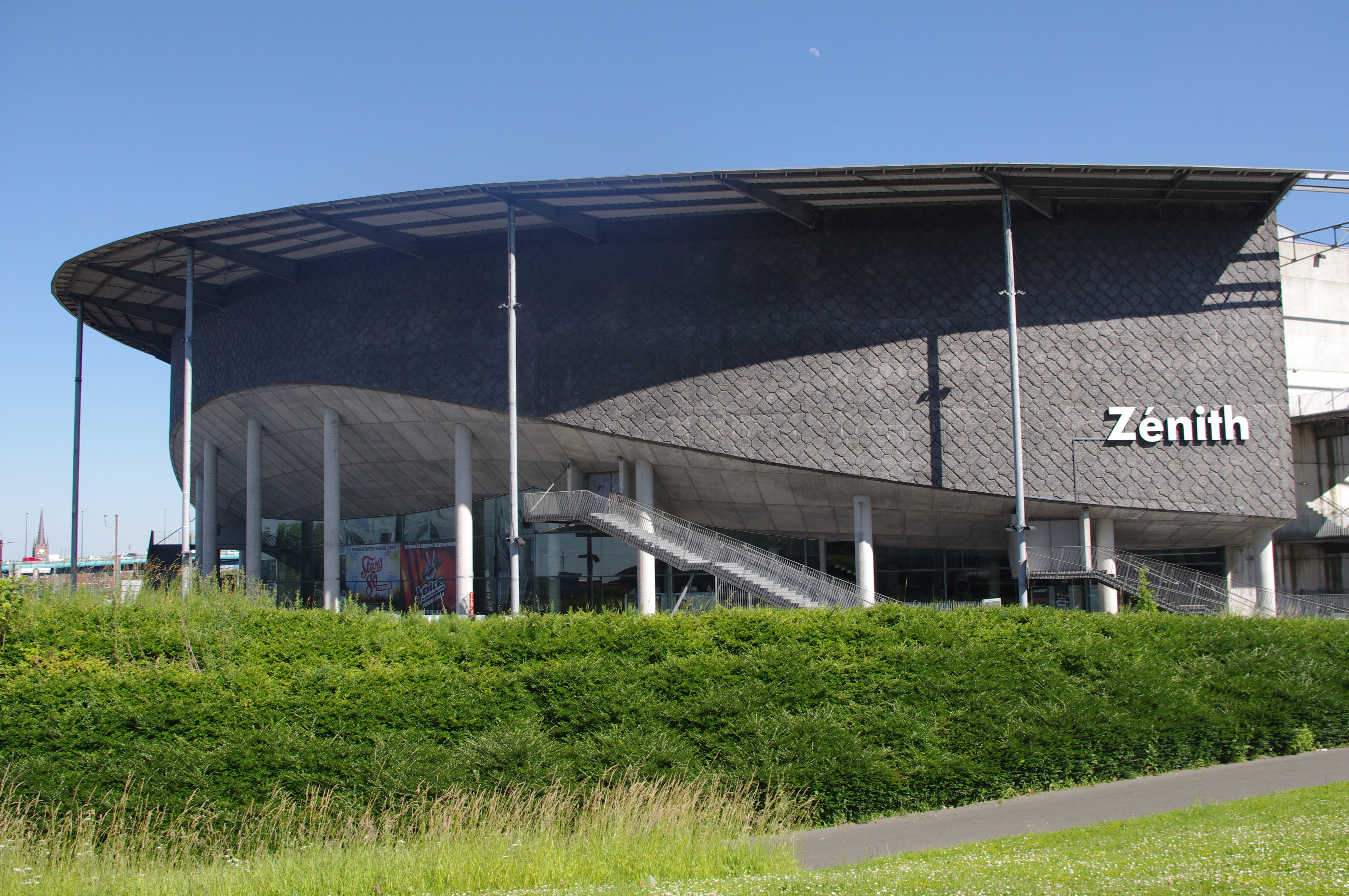 Zénith de Lille from the outside, june 2014.